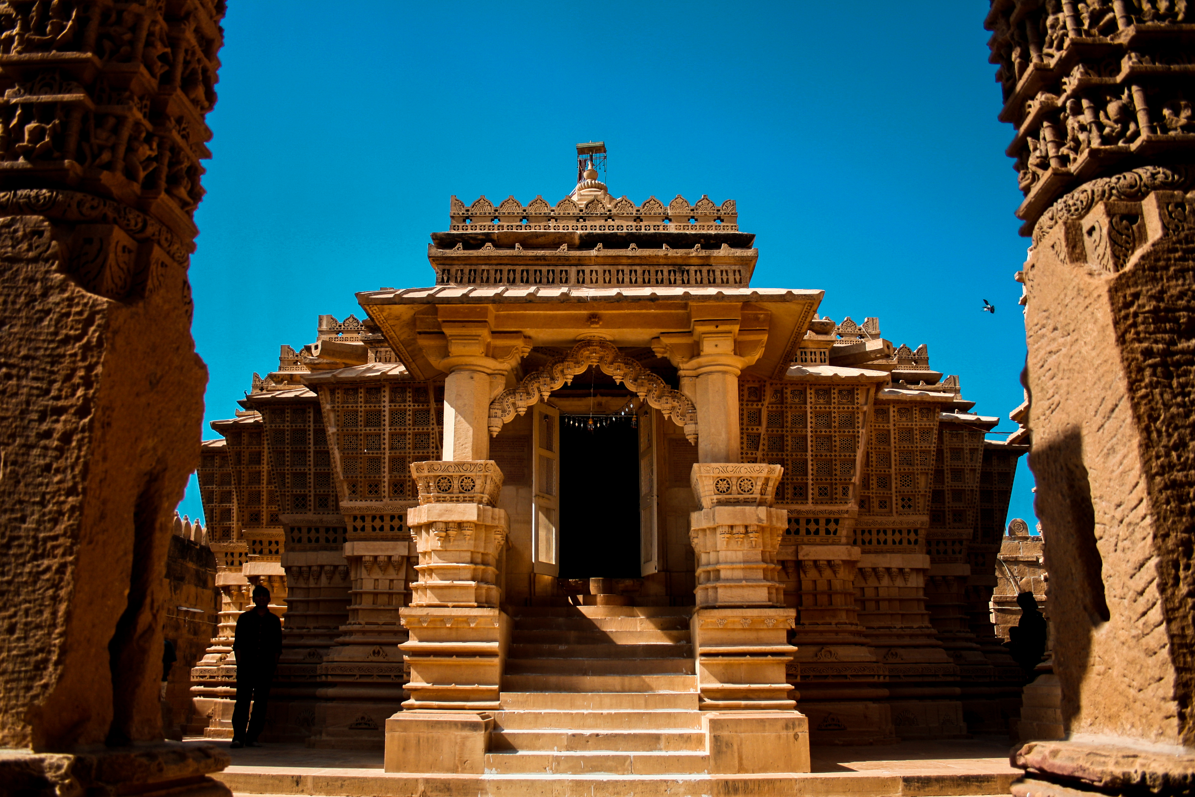 The Jain temple of Lodurva is believed to be the oldest existing Jain temple in Rajasthan, supposedly dating to the 10th century. It is constructed of yellow sandstone and features exquisitely carved screens and gateways.